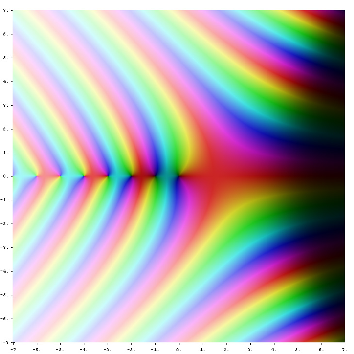 function 1/Gamma[z] in the complex plane